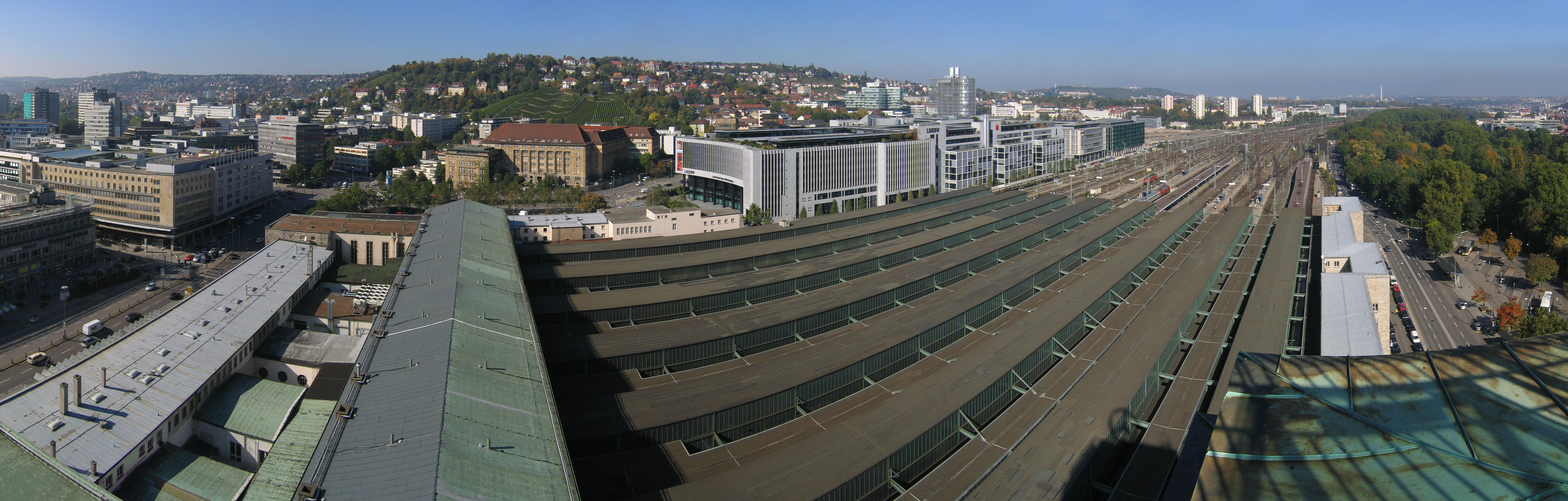 Stuttgart Hauptbahnhof, photo taken from the roof of the station tower. Own image, stitched from 6 photos with Hugin and Enblend.